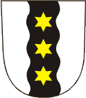 Municipal coat of arms of Černá Voda village, Jeseník District, Czech Republic.